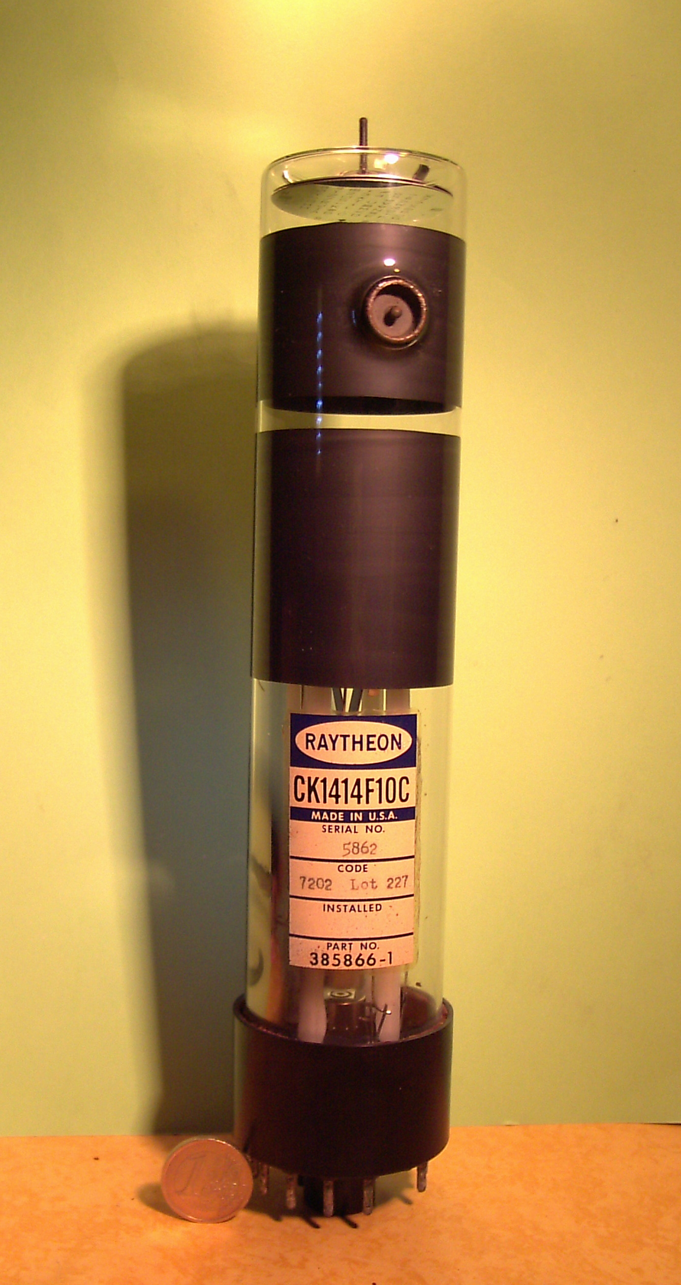 Character generator monoscope CK1414 made by Raytheon. Generates an analog video signal with capital letters, digits and various dingbats